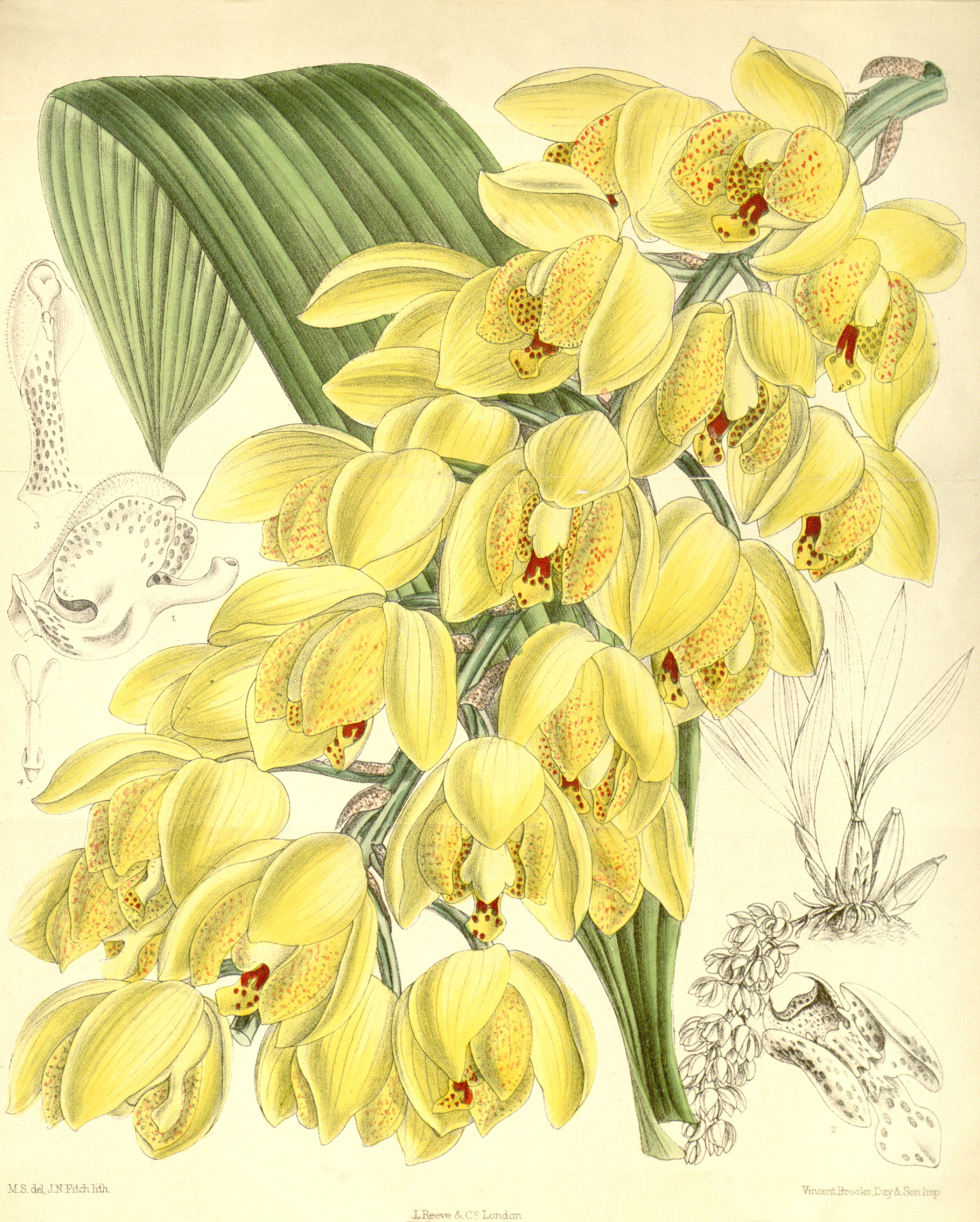 Illustration of Acineta densa